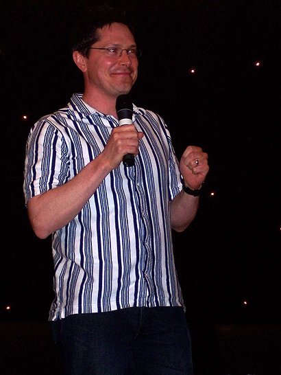 Neil Roberts in 2006